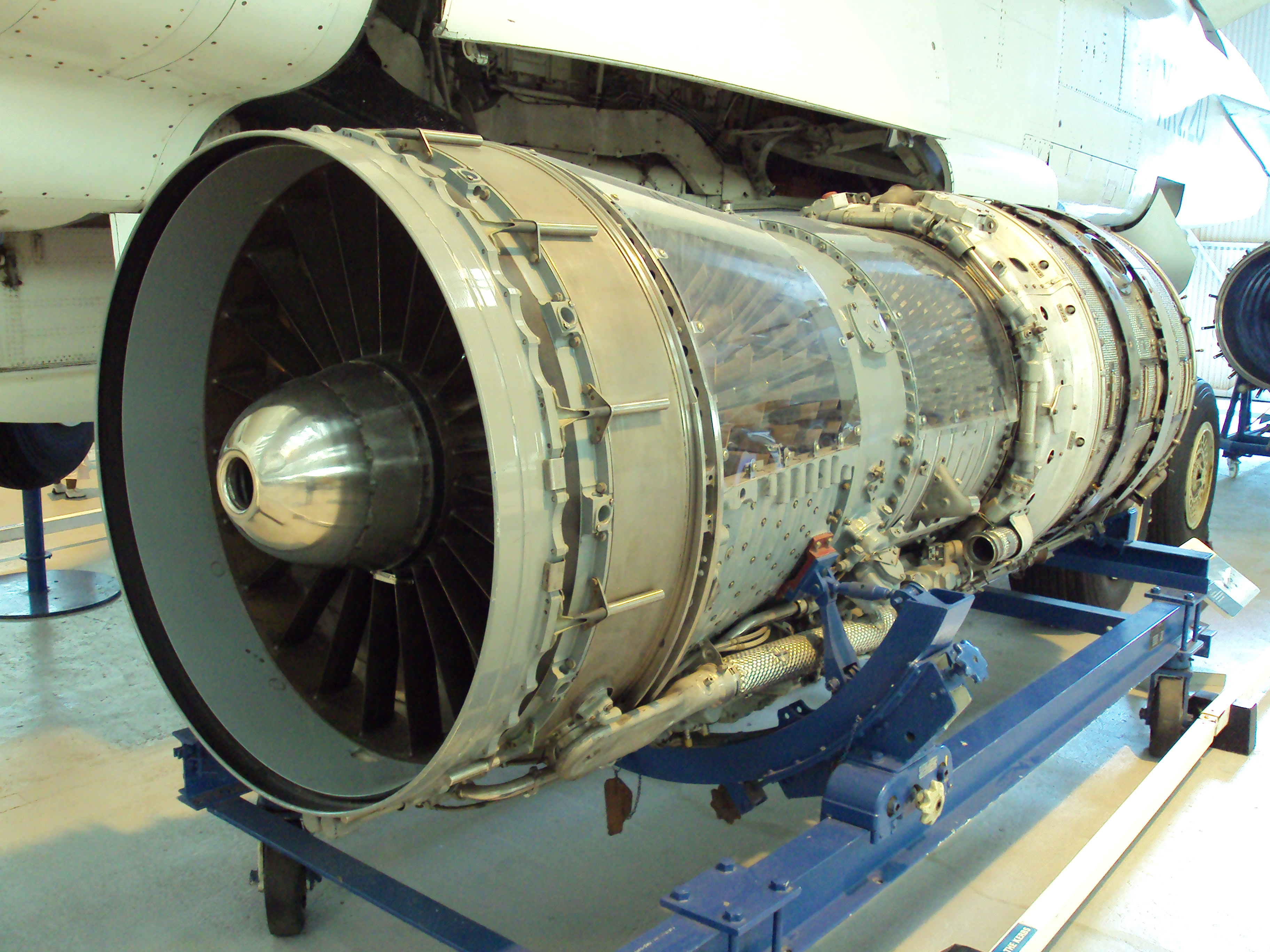 Photo of jet engine taken at the RAF Museum Cosford, Shropshire, England.